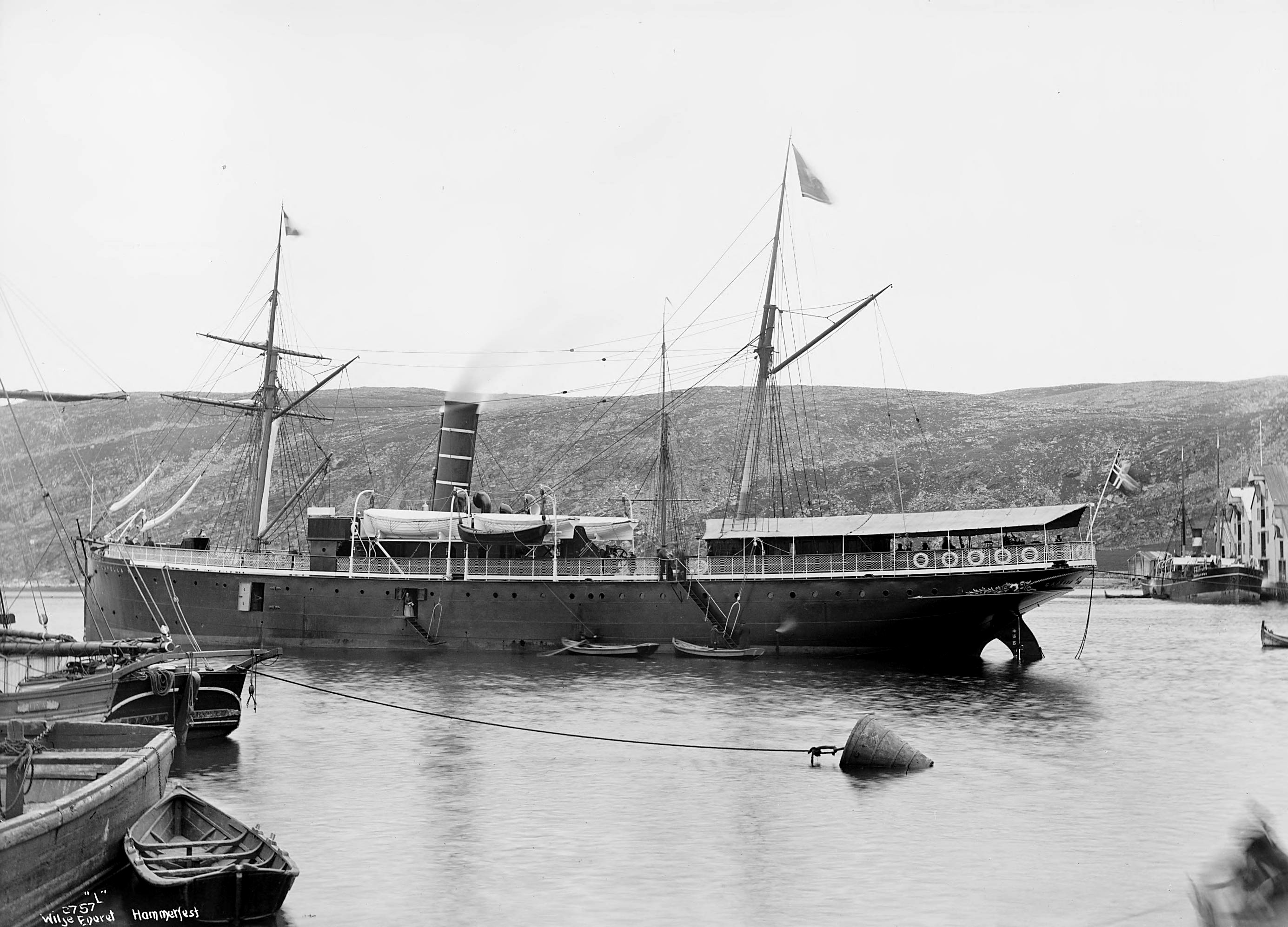 Norwegian passengership DS Capella in Hammerfest ca. 1890. This ship was employed in the Norwegian coastal express service (Hurtigruten) between 1898 and 1912.